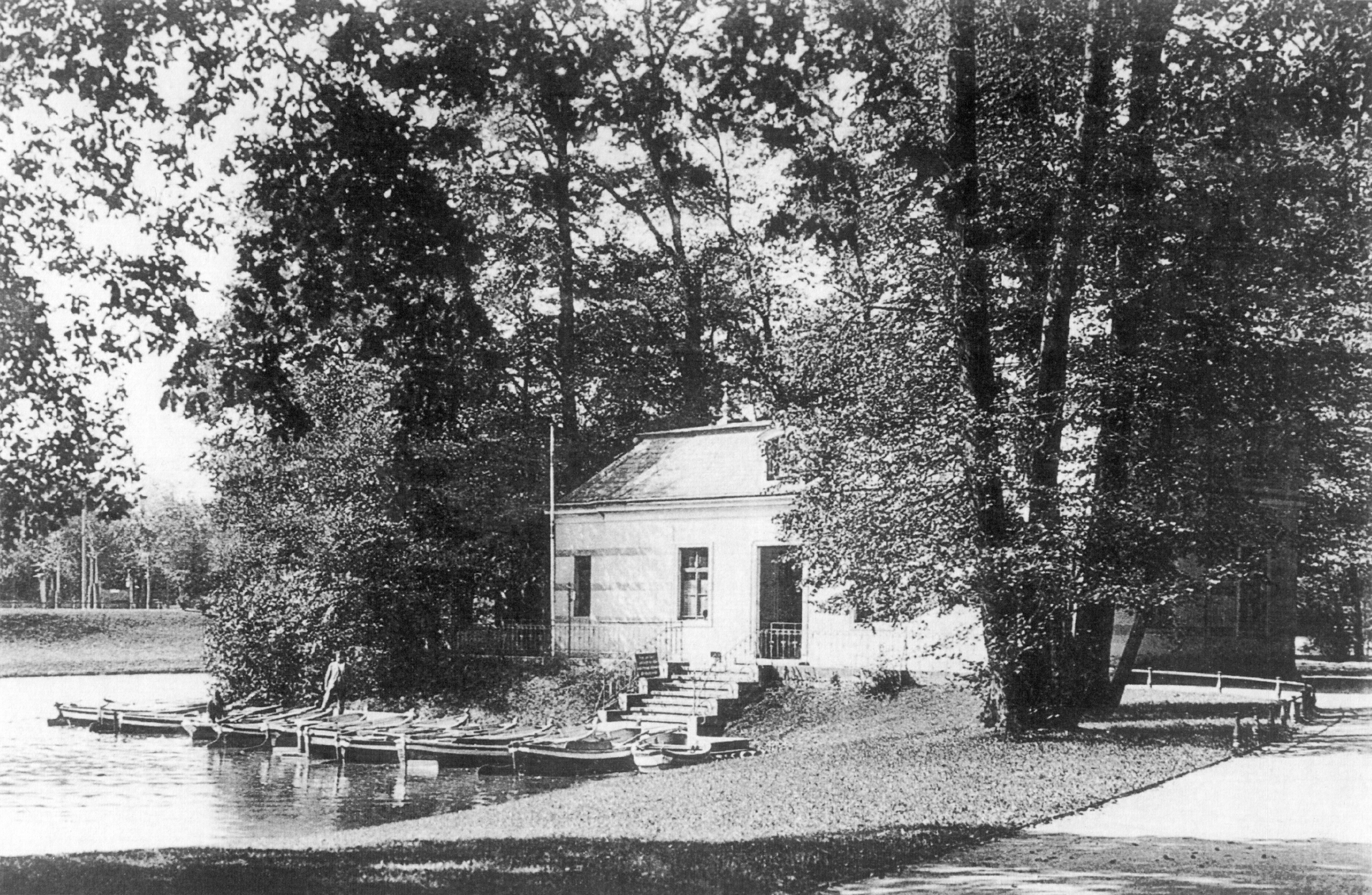 Dresden (Saxony, Germany) - Royal Großer Garten - boathouse at Carolasee, around 1900 ;Modifications :colour balanced, median-filtered with 1px